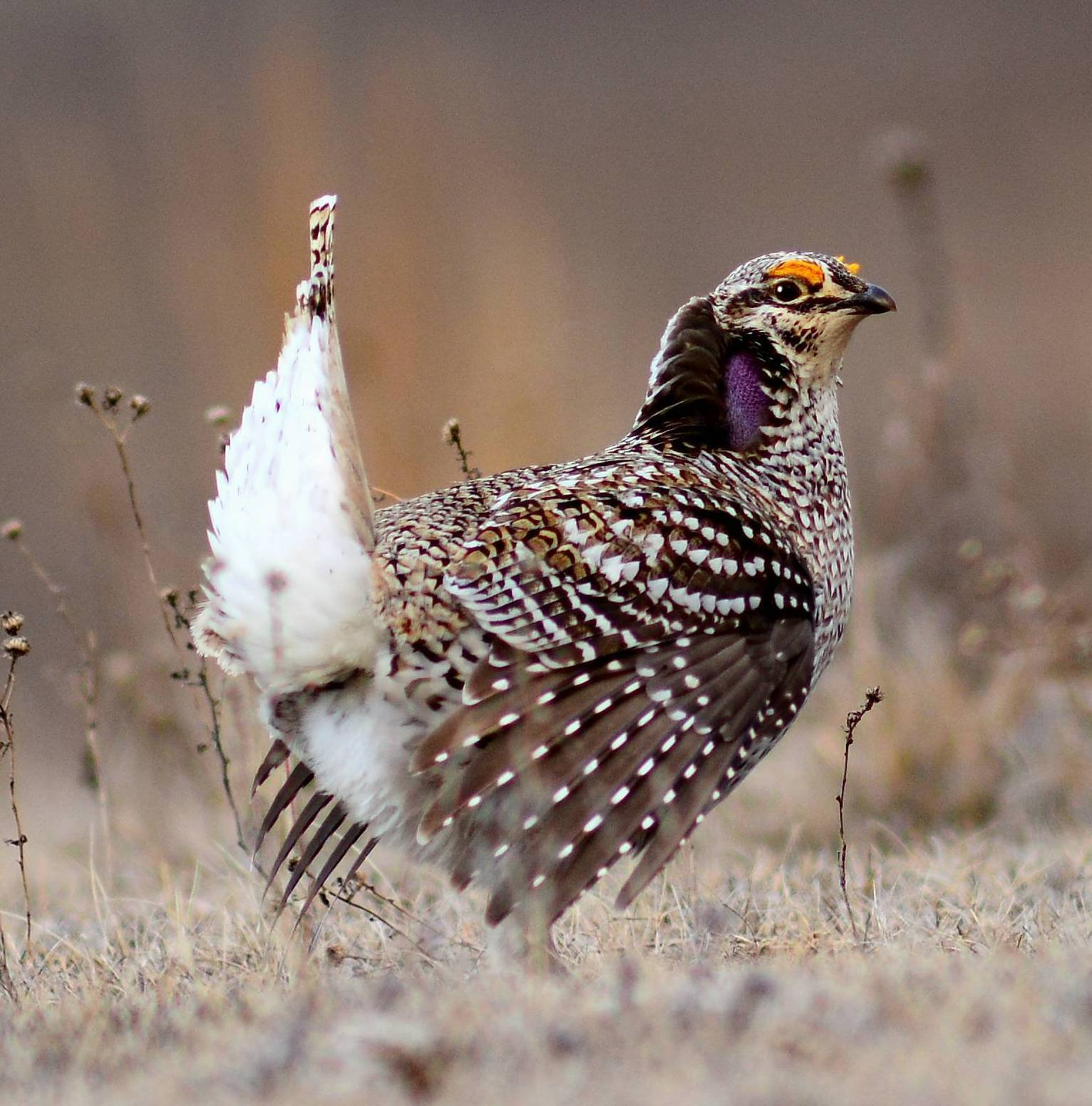 crop of file in file name